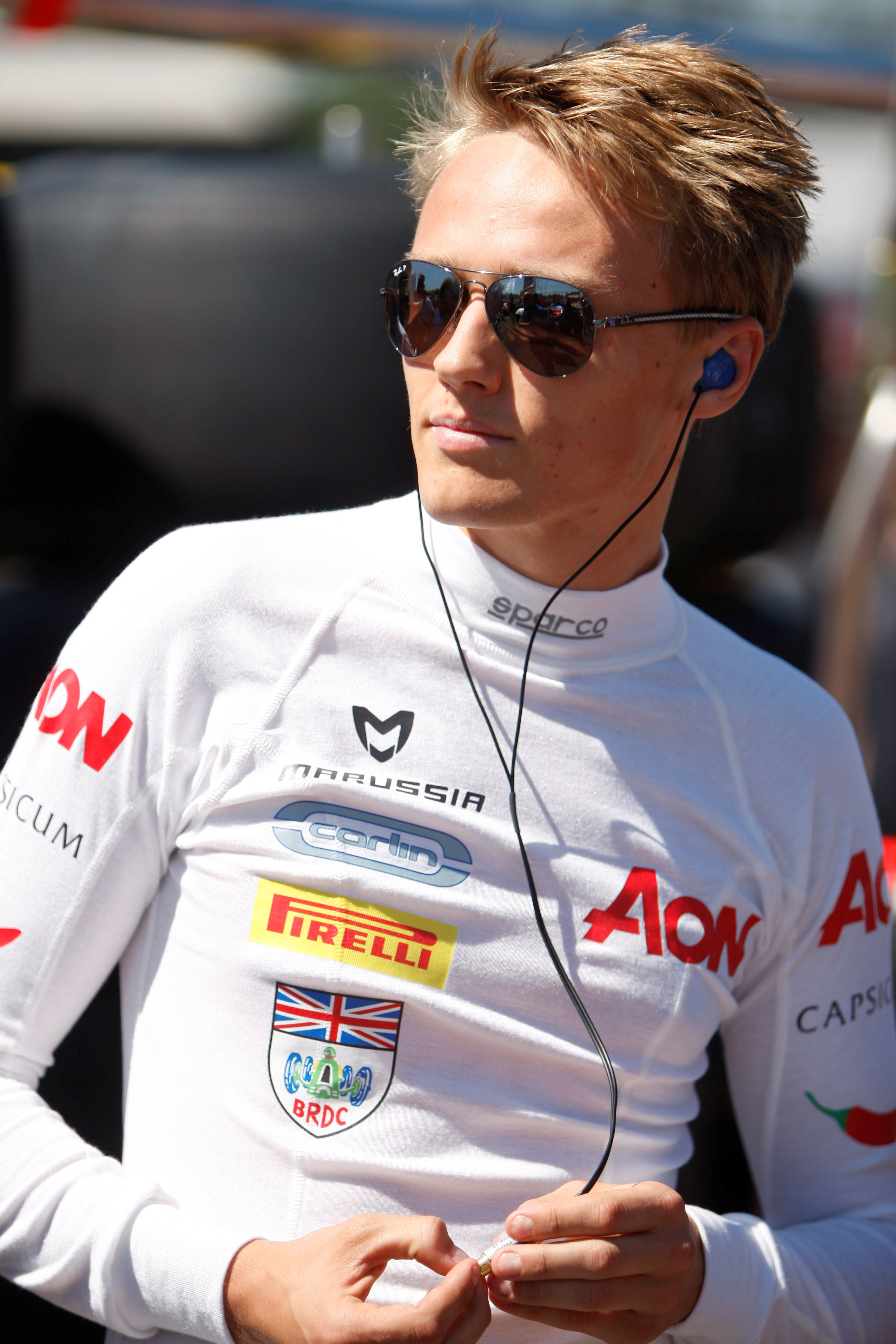 A picture of Max Chilton from 2012 in his racing sponsorship training sweats